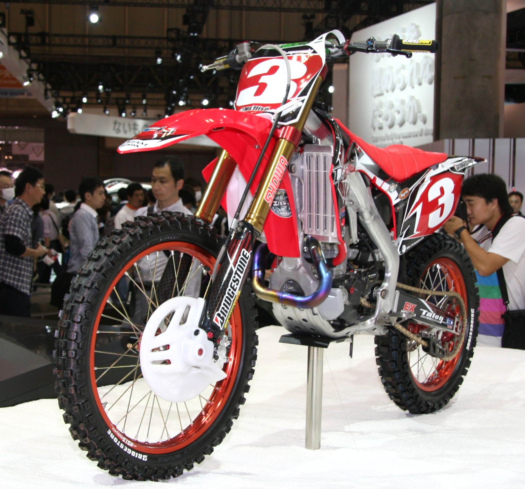 Honda CRF450R